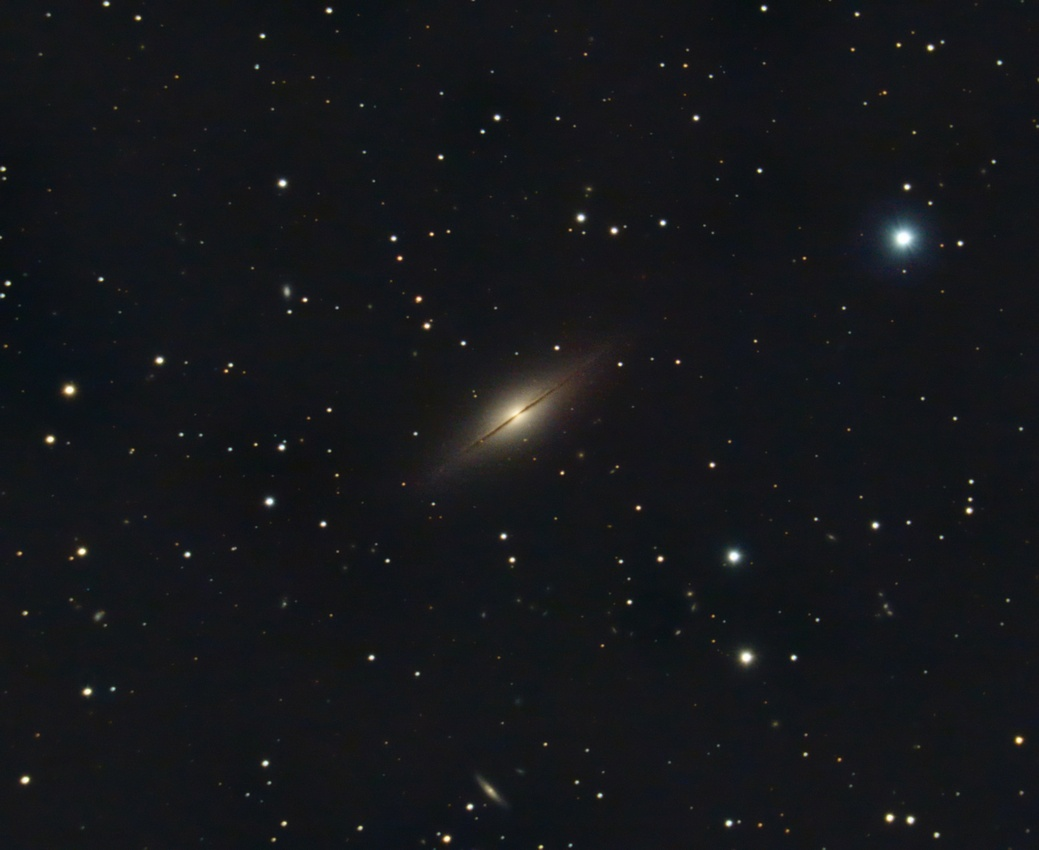 NGC 7814 in Pegasus Taken with 9.25 inch Schmidt Cassegrain and Digtital SLR Camera